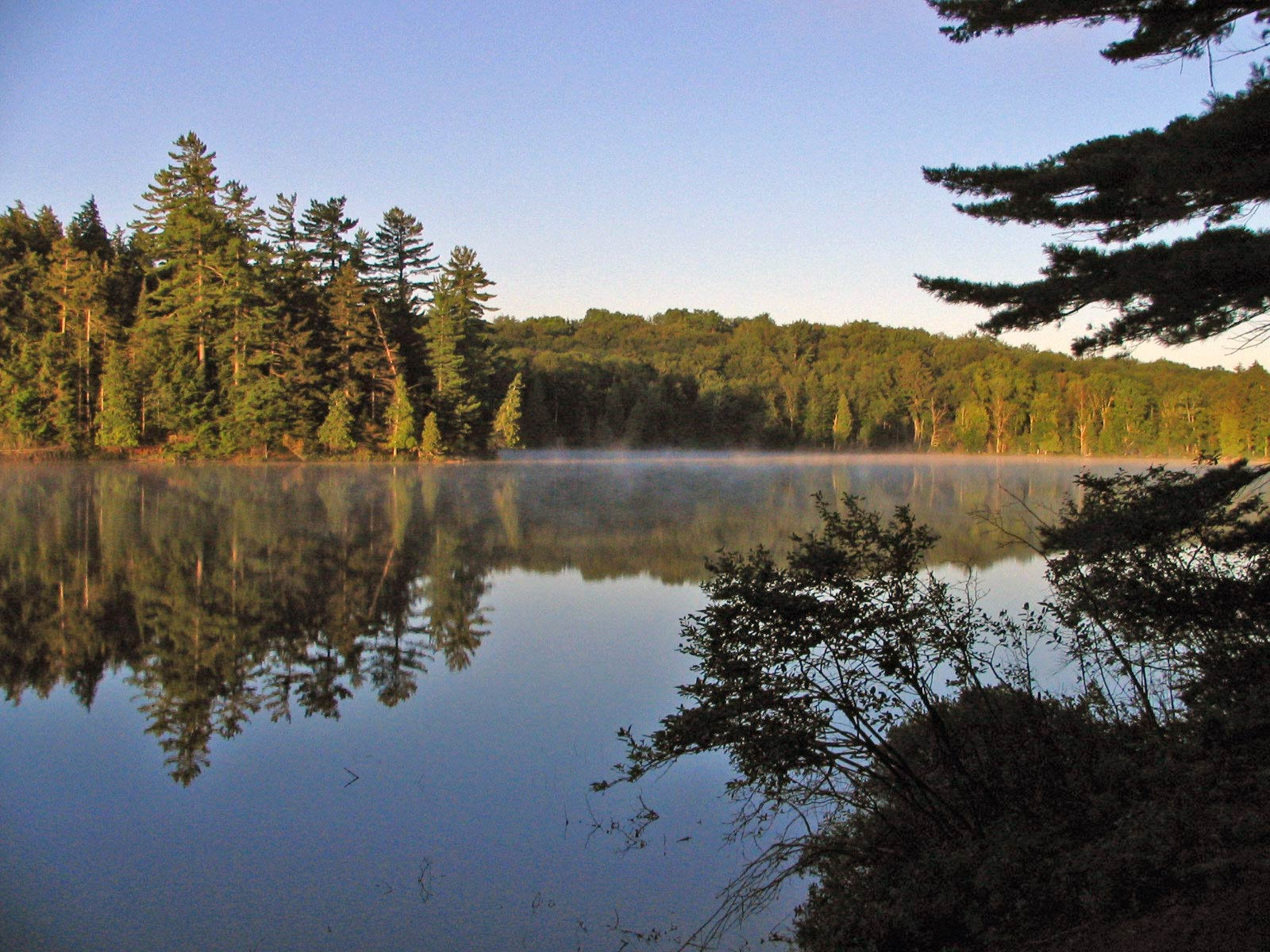 Long Pond, in the Saint Regis Canoe Area. Taken by User:Mwanner, 19 July, 2006. Category:Hamilton County, New York Category:Images of New York City